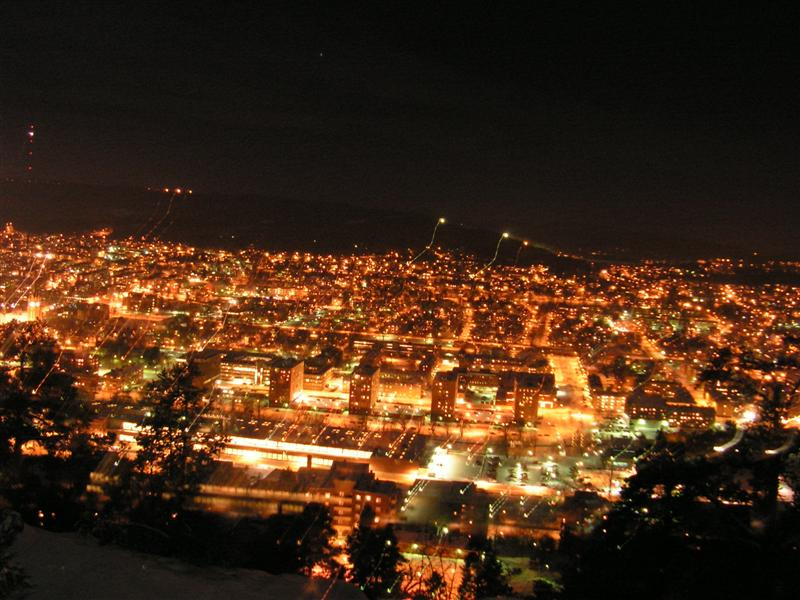 Sundsvall at night.